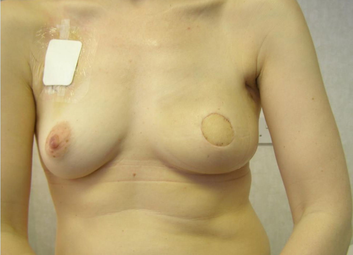 Skin sparing mastectomy and latissimus dorsi reconstruction. Left skin sparing mastectomy and latissimus dorsi myocutaneous flap reconstruction in a 45 year old woman prior to nipple reconstruction and tattooing.